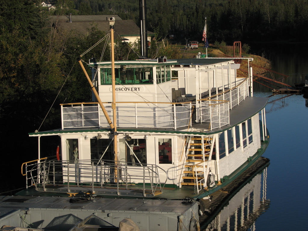 The sternwheeler Discovery I docked near Fairbanks, Alaska, in 2007.